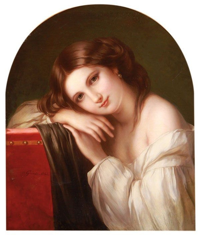 Reflection